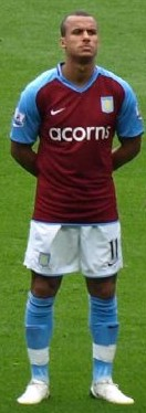 Gabriel Agbonlahor